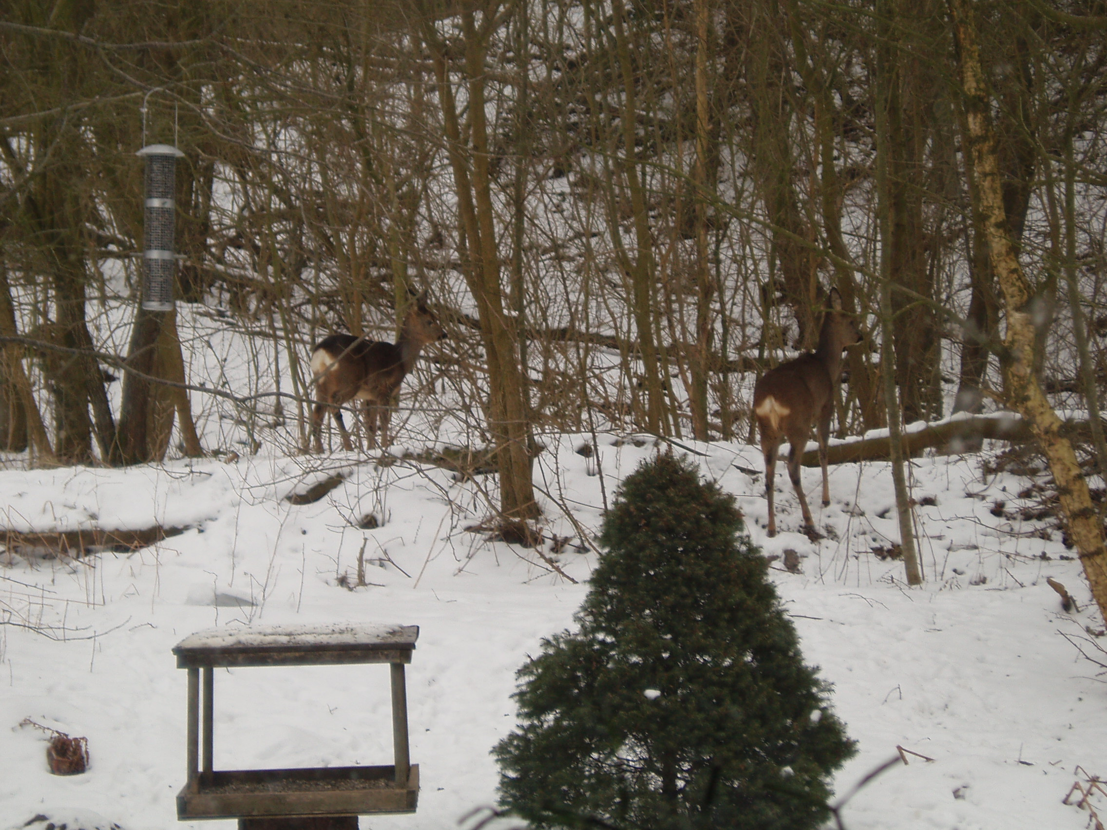 Capreolus capreolus (Rådyr) in My garden in Denmark 12. March 2006. The picture are taken out of mi kichen window.